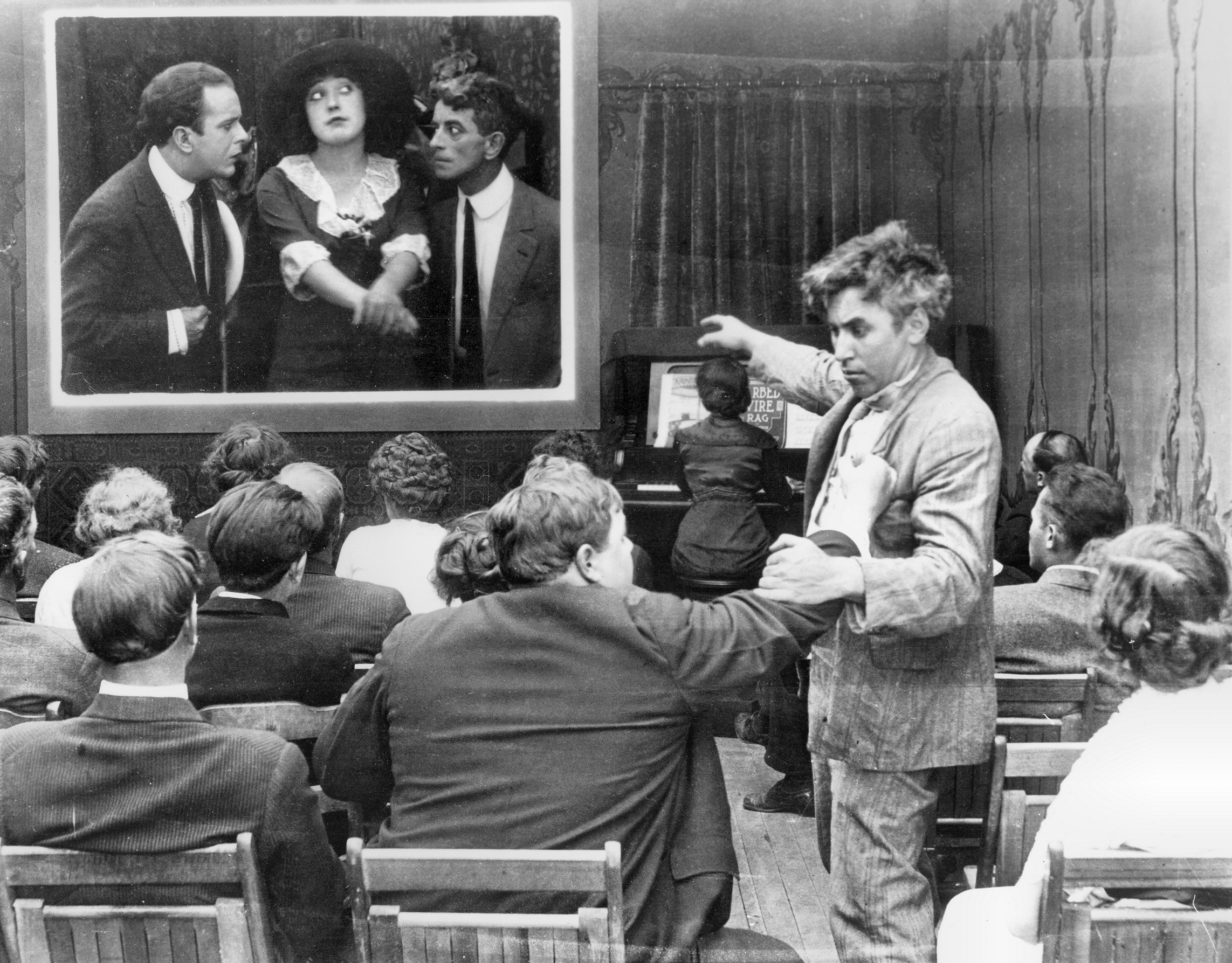 Mabel Normand and Mack Sennett in the film Mabel's Dramatic Career (1913). Roscoe Arbuckle plays a man in the cinema audience. The film features a film within a film and uses multiple exposure to show a film being projected in a cinema. The photo was collected during research for the Orange County Archives' 2011 exhibit, "On Location: Silent Film In Orange County." There are no known copyright restrictions on this image. All future uses of this photo should include the courtesy line, "Photo courtesy Orange County Archives." Comments are welcome after reading our Comment Policy.